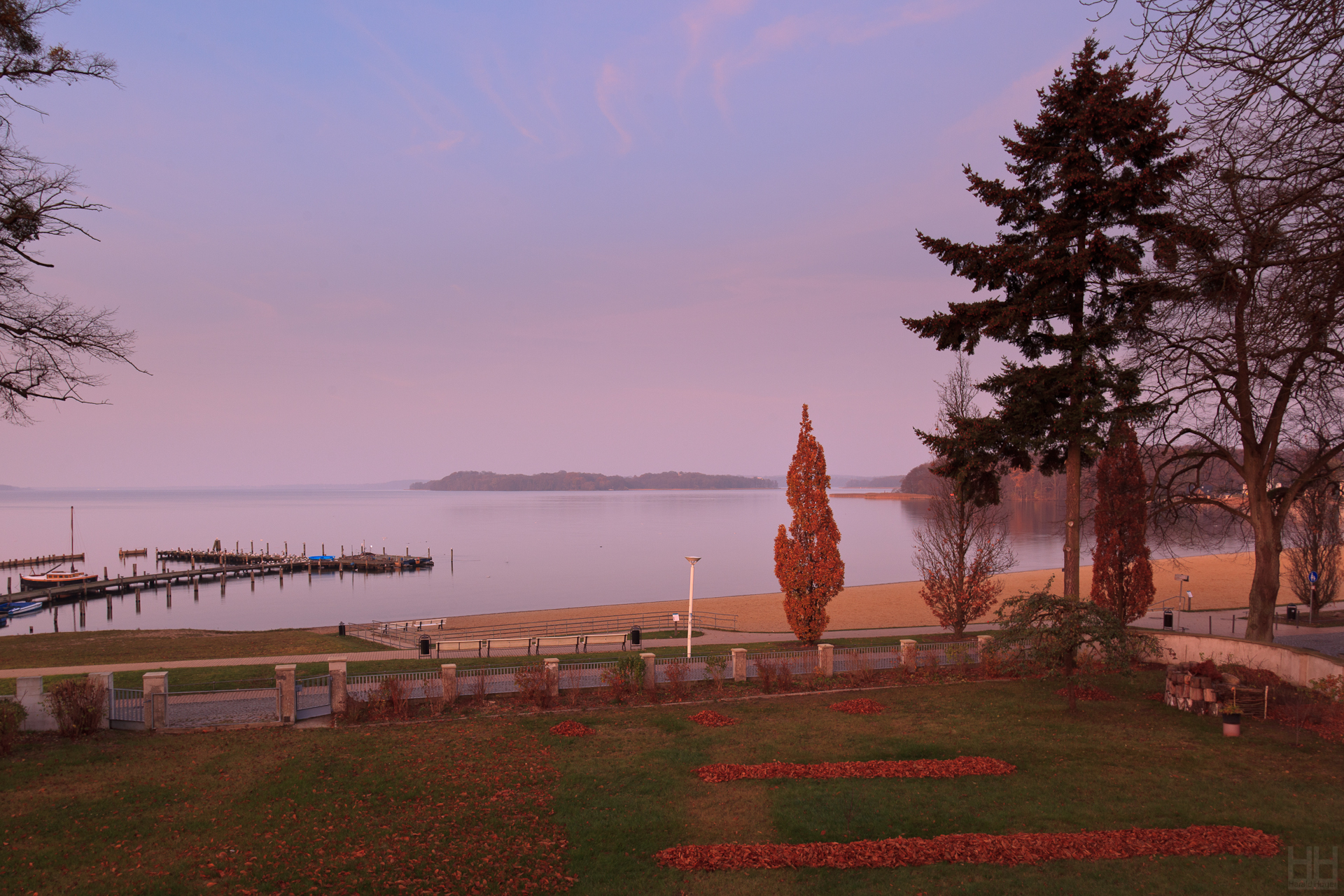 Strand, Zippendorf, Schwerin Everything was lit very pinky :-)